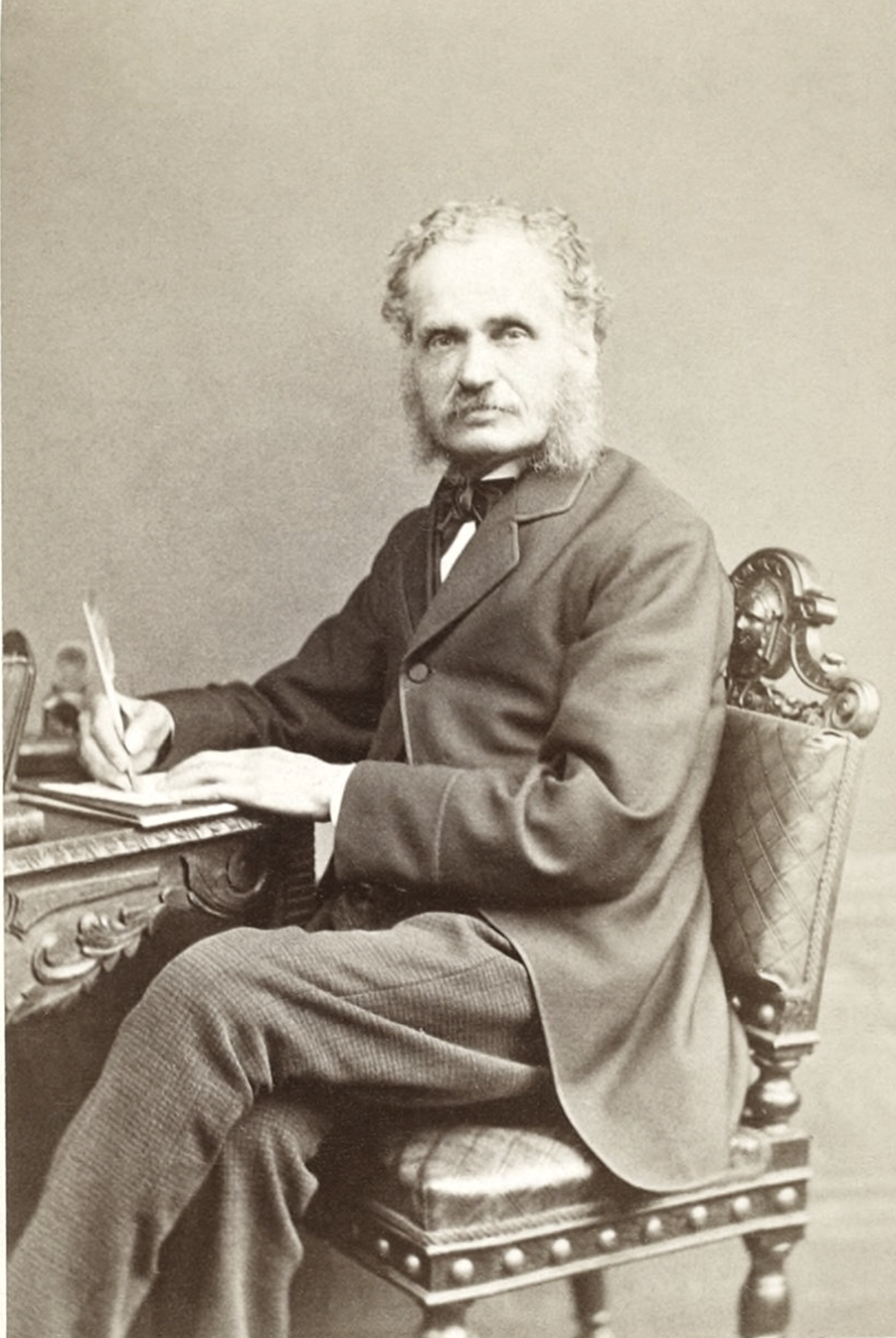 Henry Walter Bates (1825-1892), british naturalist and explorer.